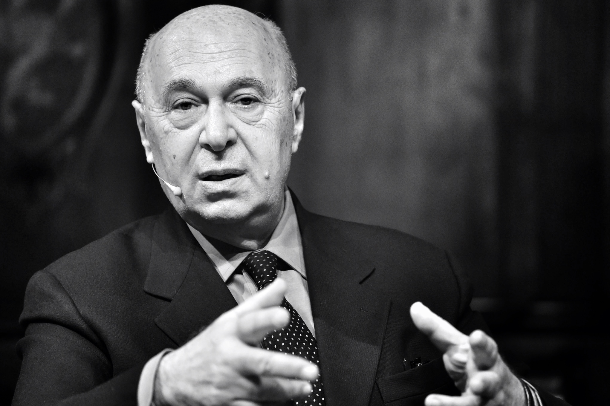 Italian journalist Paolo Mieli speaking at the 2104 International Journalism Festival in Perugia, Italy.